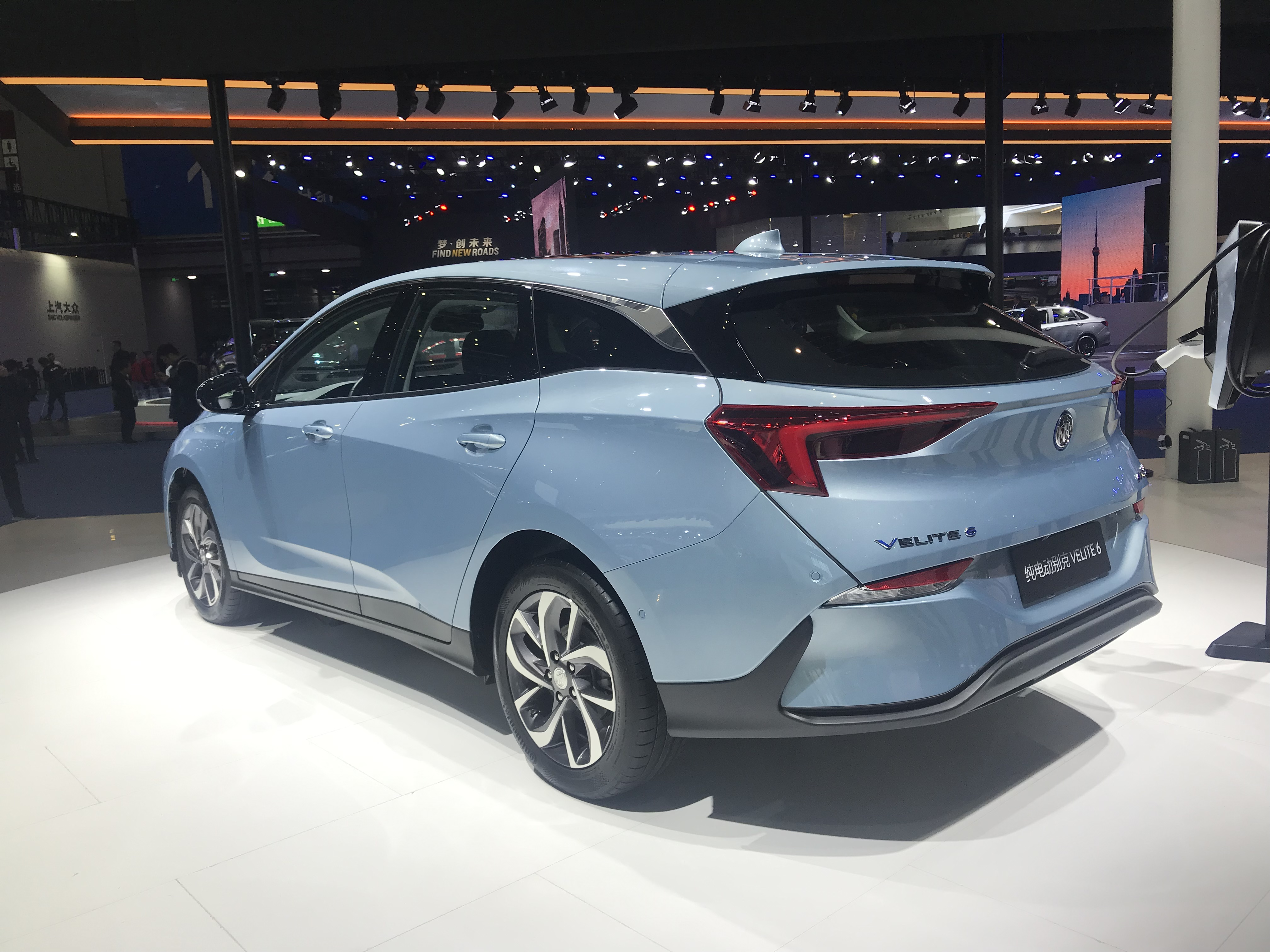 Buick Velite 6